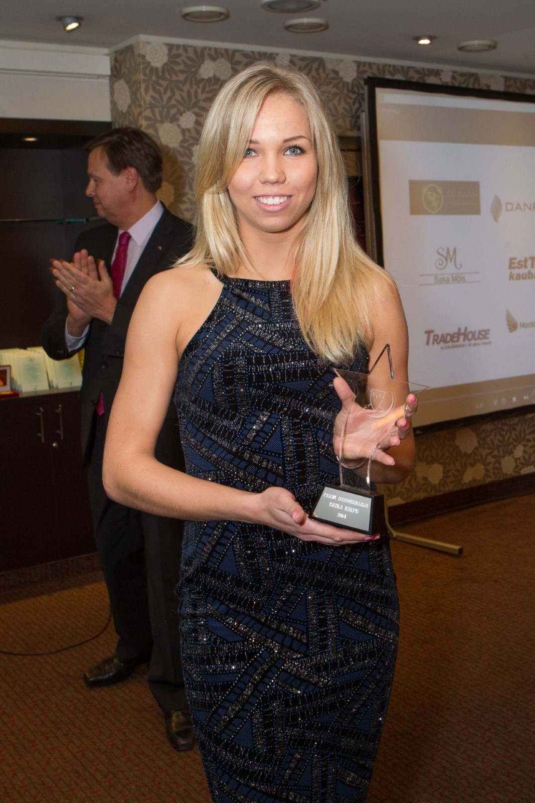 Эрика Кирпу